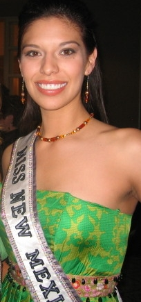 Onawa Lacy (Miss New Mexico USA 2006), in a picture taken during a party prior to the Miss USA 2006 pageant.